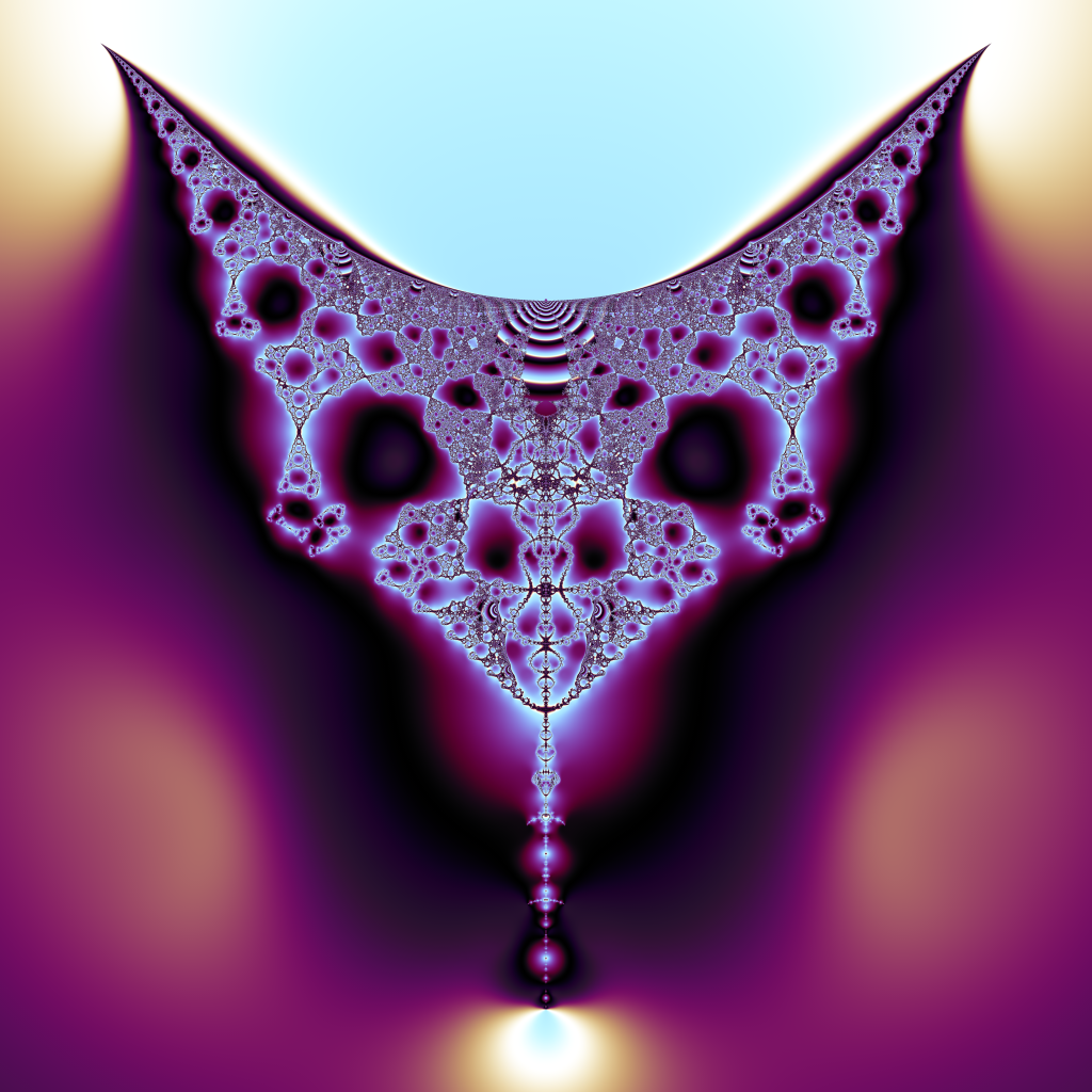 A Nova Fractal with the real part of the relaxation parameter set to 2.0, rendered using UltraFractal 4.02